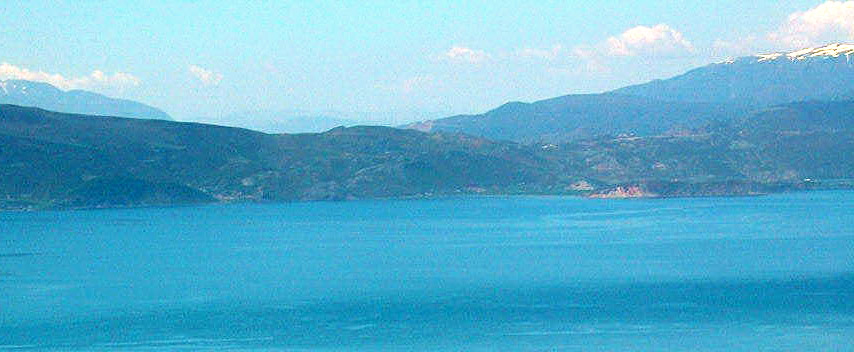 Qafë Thana in Albania above Lake Ohrid, seen from the other side of the lake in Macedonia